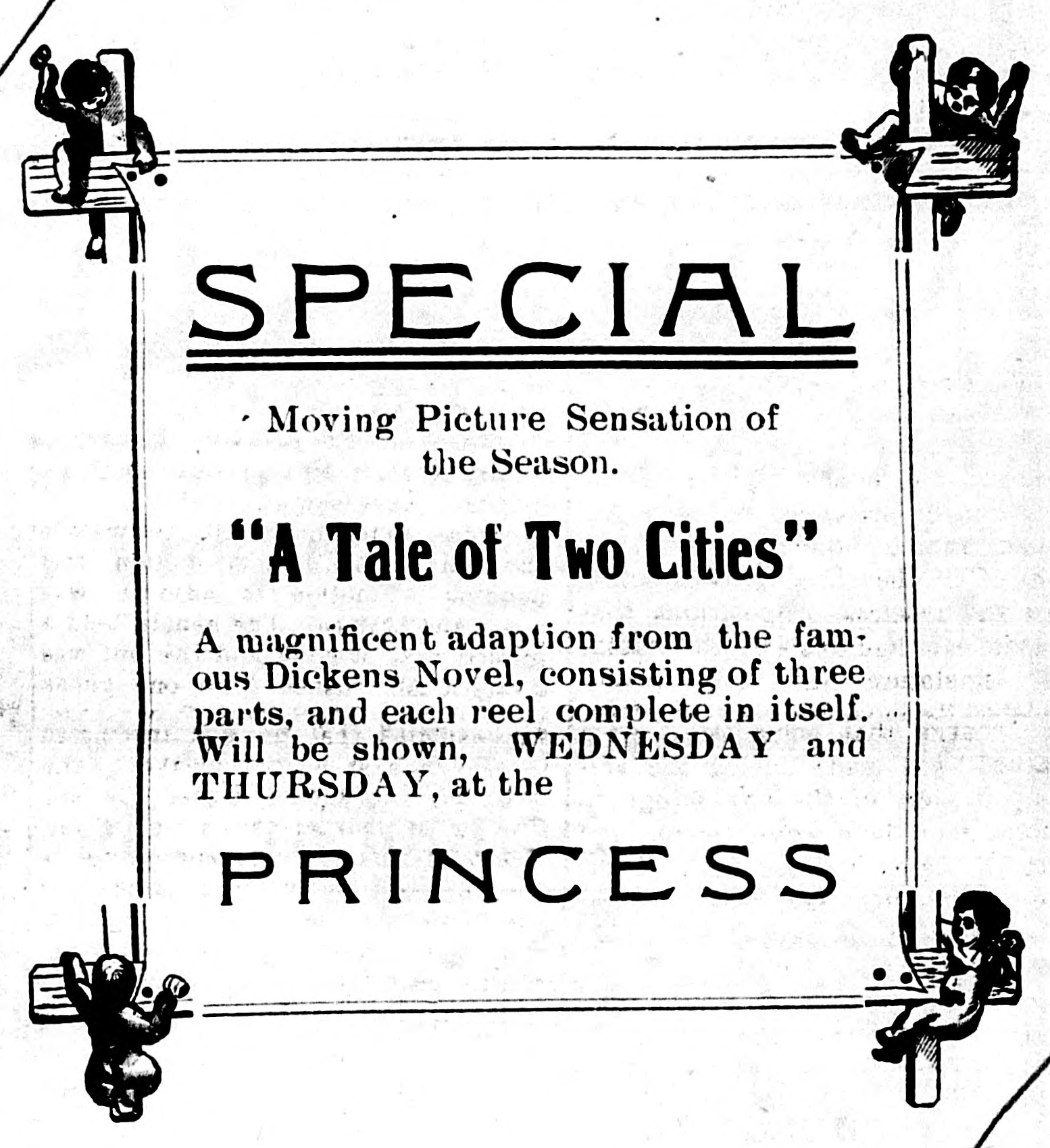 A Tale of Two Cities (1911) is a silent film directed by William J. Humphrey, loosely based on the novel by Charles Dickens. This is from a newspaper advertisement.